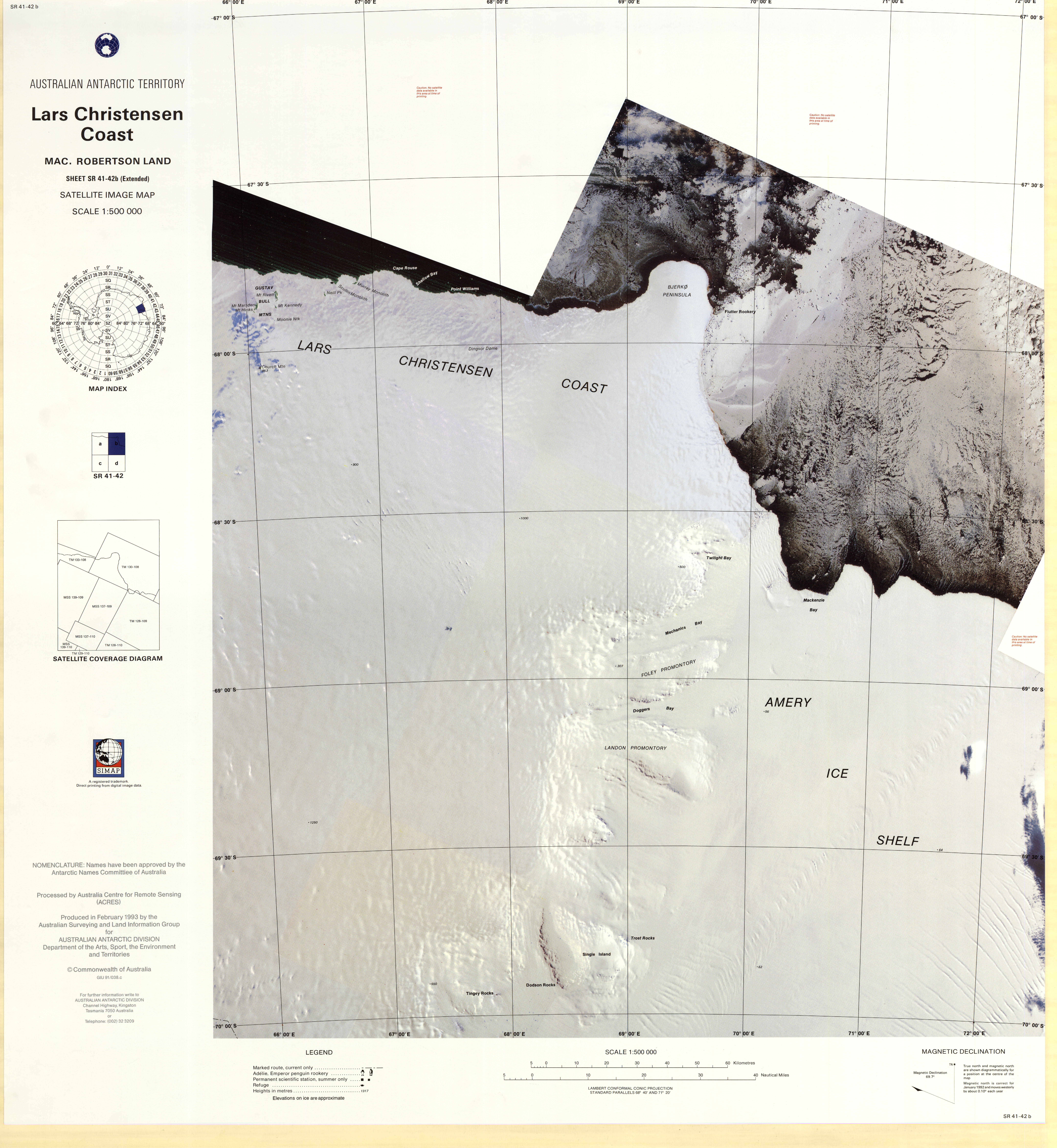 Satellite image map of Lars Christensen Coast, Mac. Robertson Land, Antarctica. This map is part (b) of a series of four north Prince Charles Mountains maps. This map was produced for the Australian Antarctic Division by AUSLIG (now Geoscience Australia) Commercial, in Australia, in 1991. The map is at a scale of 1:500000, and was produced from Landsat TM and MSS scenes. It is projected on a Lambert Conformal Conic projection, and shows glaciers/ice shelves, penguin colonies, refuges/depots. The map has only geographical co-ordinates.